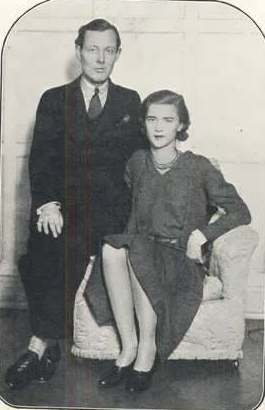 Ronald Balfour and Deirdre Hart-Davis, The Tatler, 1929